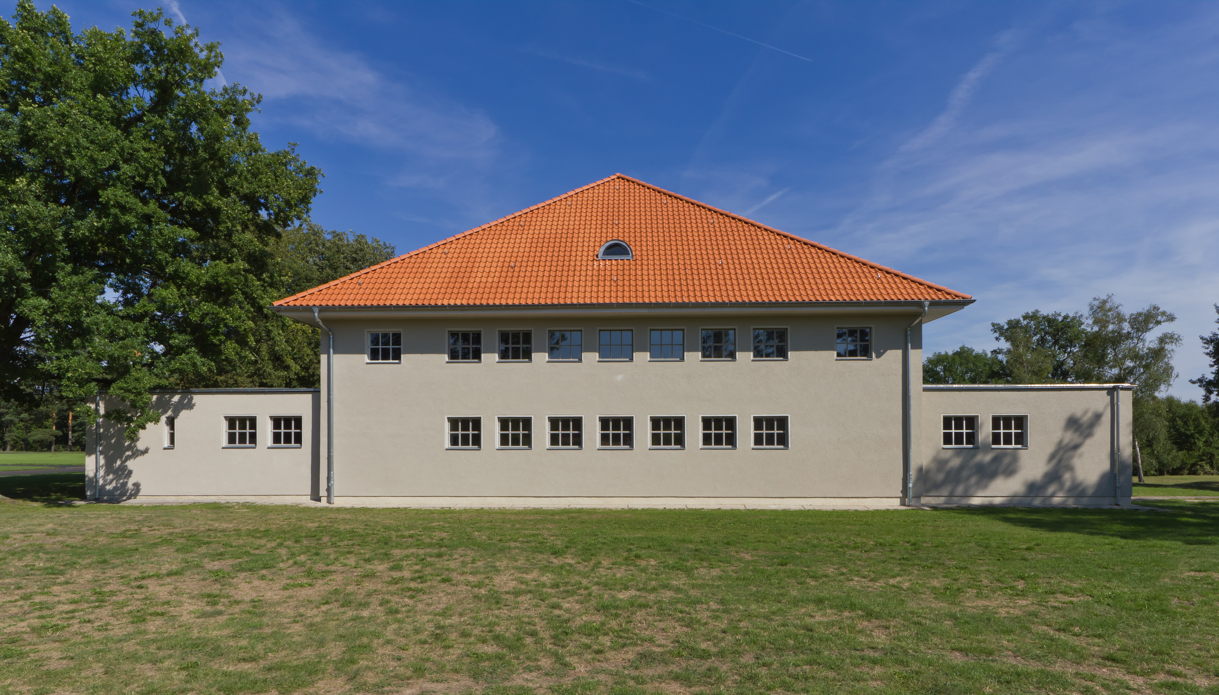 Former swimming venue in the Berlin Olympic Village (built for the 1936 games) near Berlin, Germany